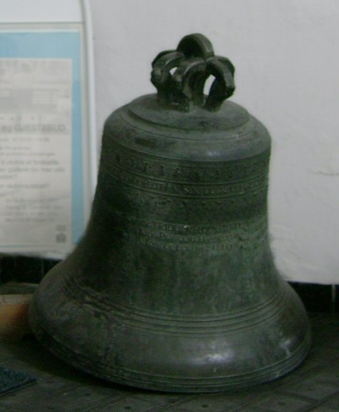 Church bell at Our Lady's church, Trondheim, Norway.